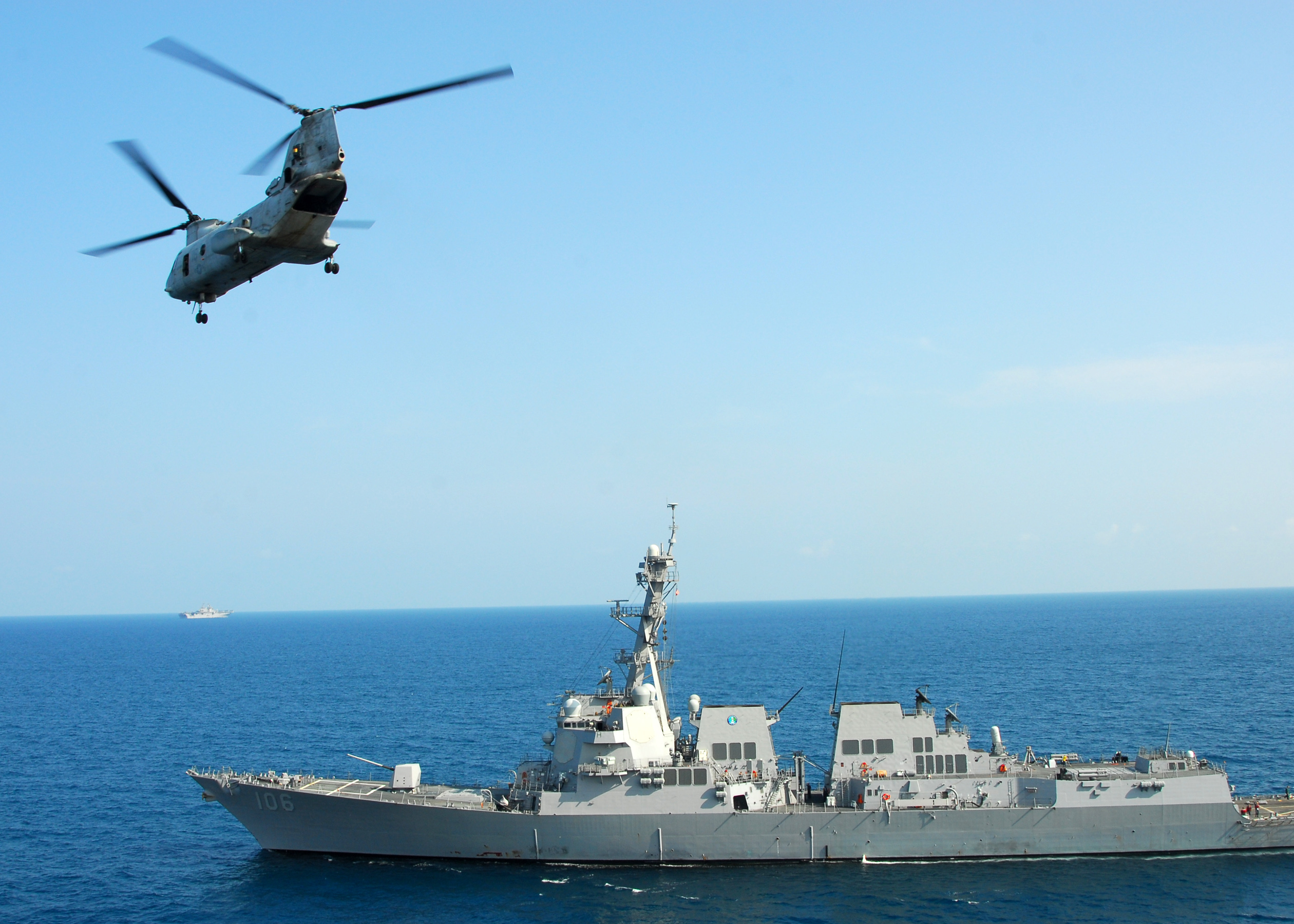 GULF OF THAILAND (Feb. 17, 2011) A CH-46E Sea Knight helicopter flies by the guided-missile destroyer USS Stockdale (DDG 106) after a visit, board, search and seizure drill aboard the Military Sealift Command maritime prepositioning ship USNS 1st Lt. Jack Lummus (T-AK 3011) as part of exercise Cobra Gold 2011. Cobra Gold is a multinational military exercise co-sponsored by the U.S. and Thailand. (U.S. Navy photo by Mass Communication Specialist 2nd Class Eva-Marie Ramsaran/Released)